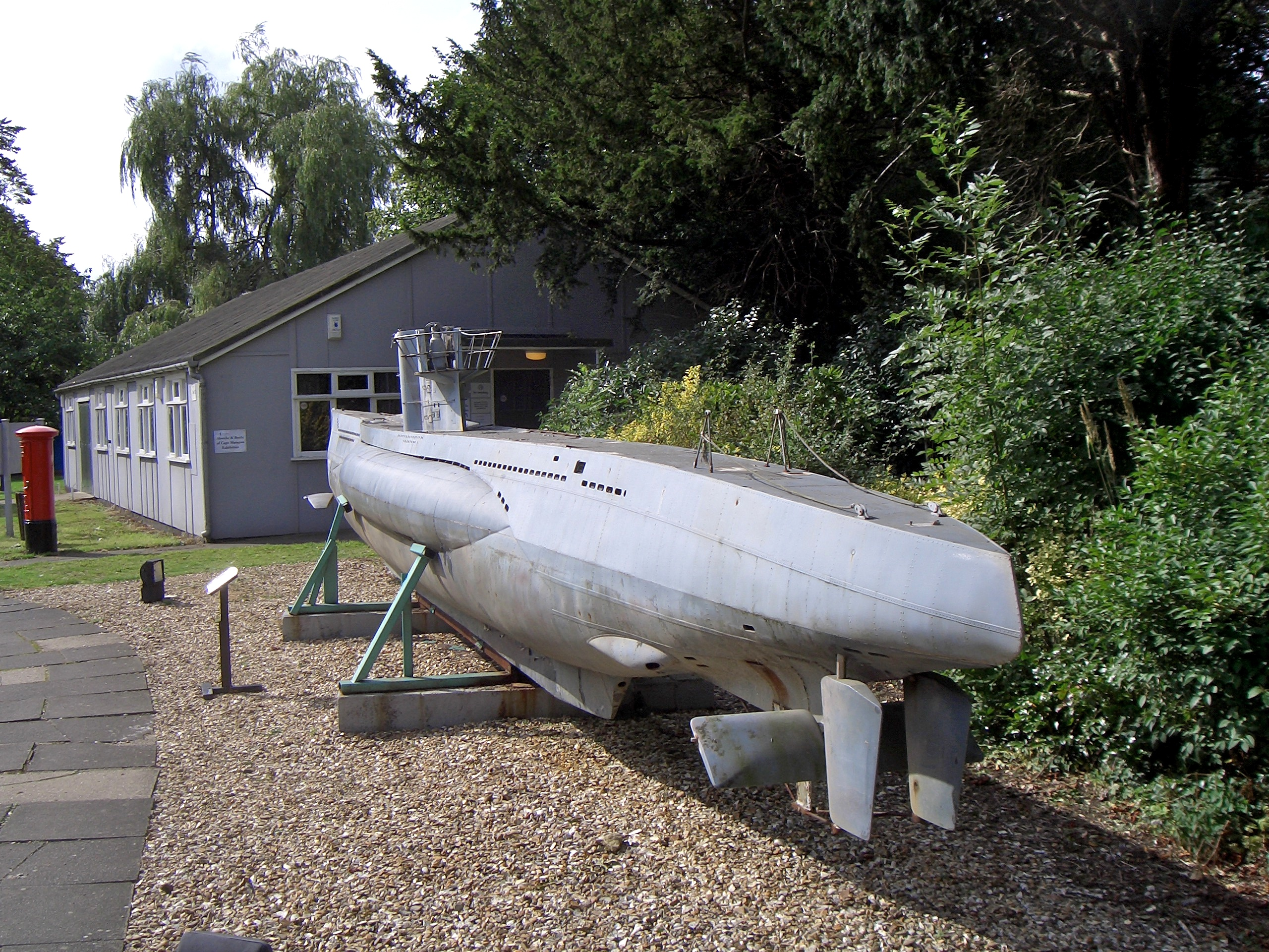 1/5 scale model of a Mark VII U-boat, as used in the Enigma film. Photographed at Bletchley Park